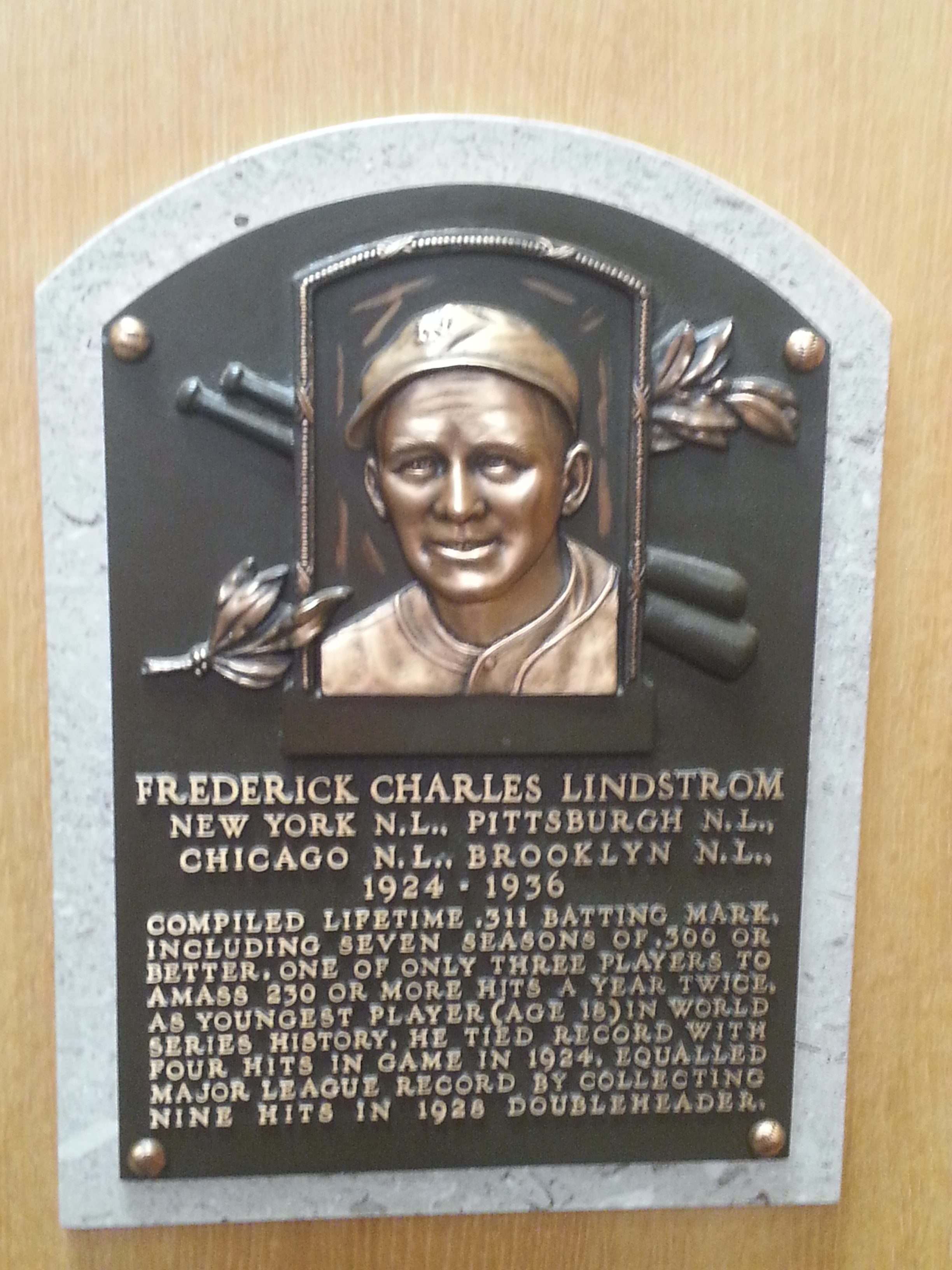 Freddie Lindstrom plaque in the National Baseball Hall of Fame